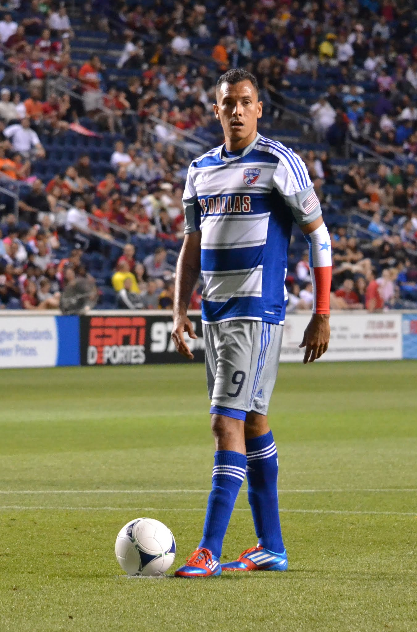 Blas Péres of FC Dallas, 2012